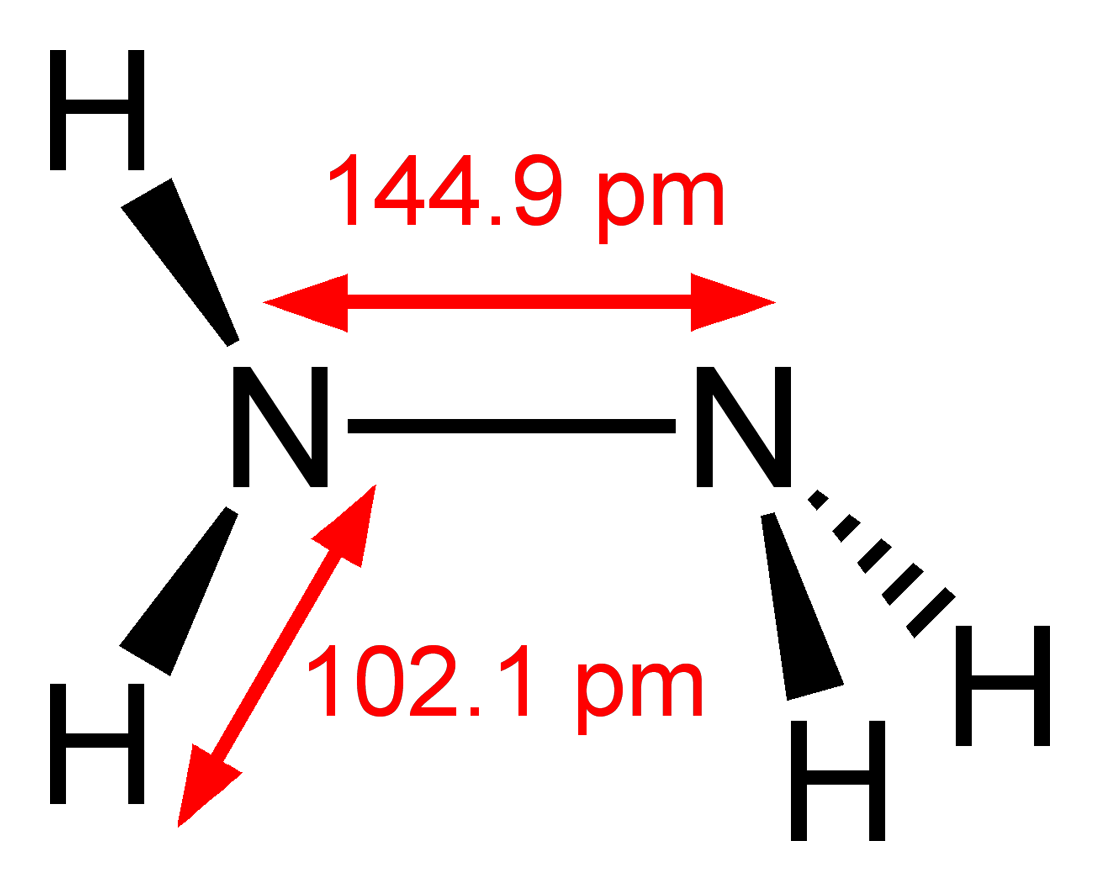 Structural diagram of the hydrazine molecule, N2H4. Gas phase electron diffraction data from Kunio Kohata, Tsutomu Fukuyama, and Kozo Kuchitsu (1983). "Molecular structure of hydrazine as studied by gas electron diffraction". The Journal of Physical Chemistry 86: 602-606.